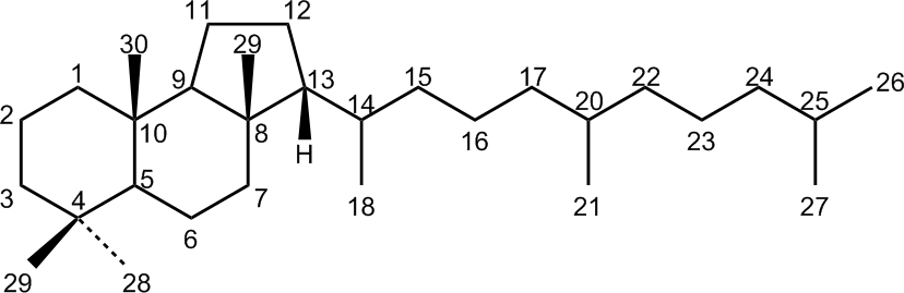 Skeletal formula of the triterpene malabaricane. Created using ChemDraw Pro v11.0 and Photoshop v7.0.1